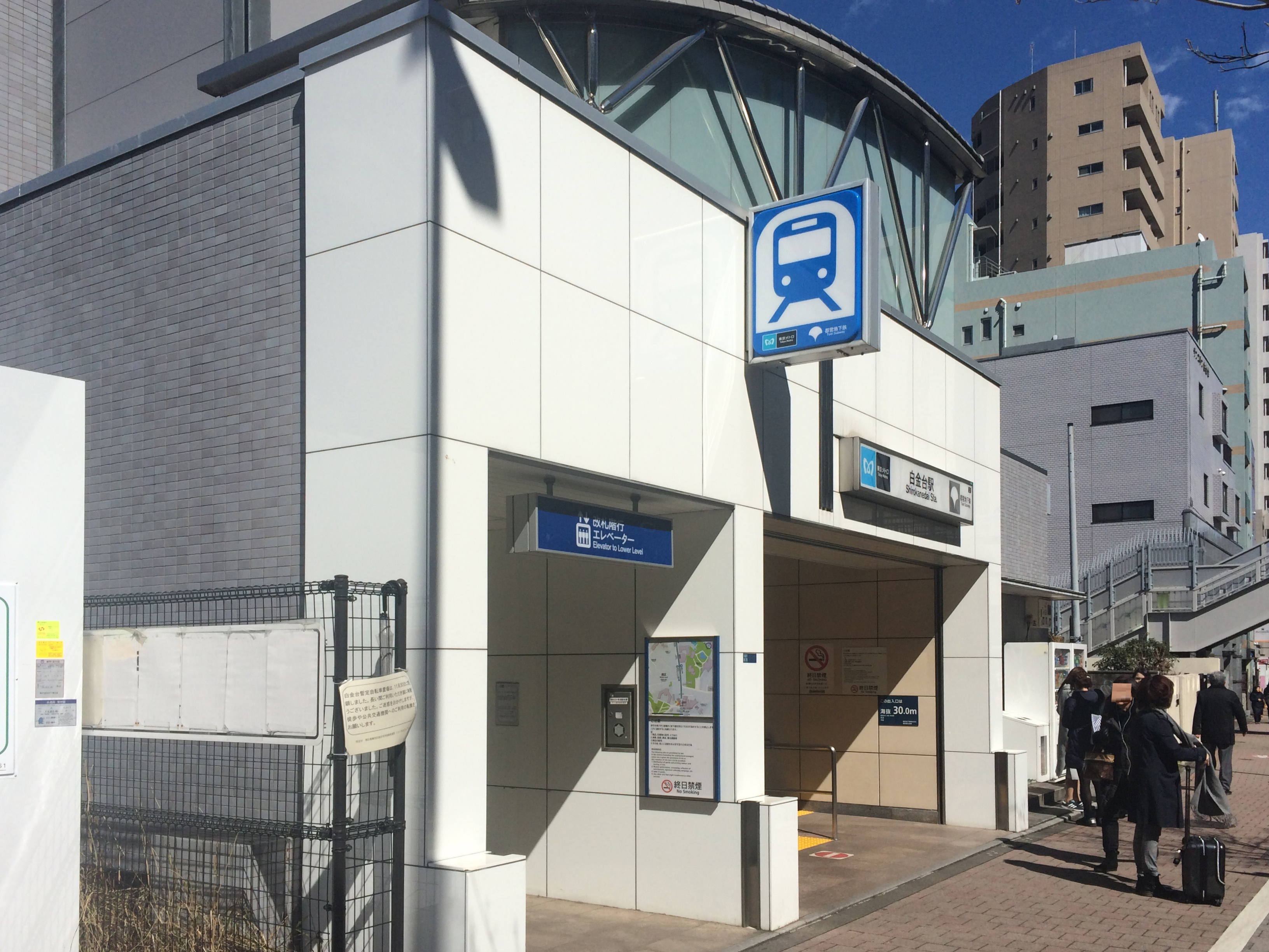 The entrance to Shirokanedai Station in Tokyo